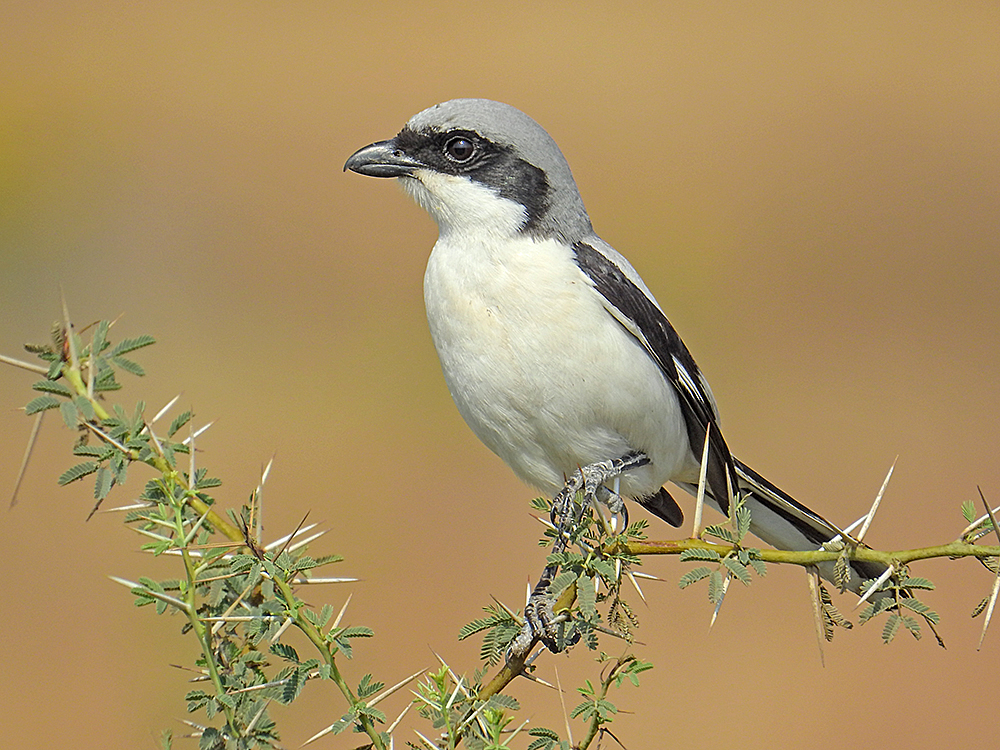 Indian Great Grey Shrike (Lanius meridionalis lahtora) Photograph by Shantanu Kuveskar Location : Purandar, Pune, Maharashtra, India